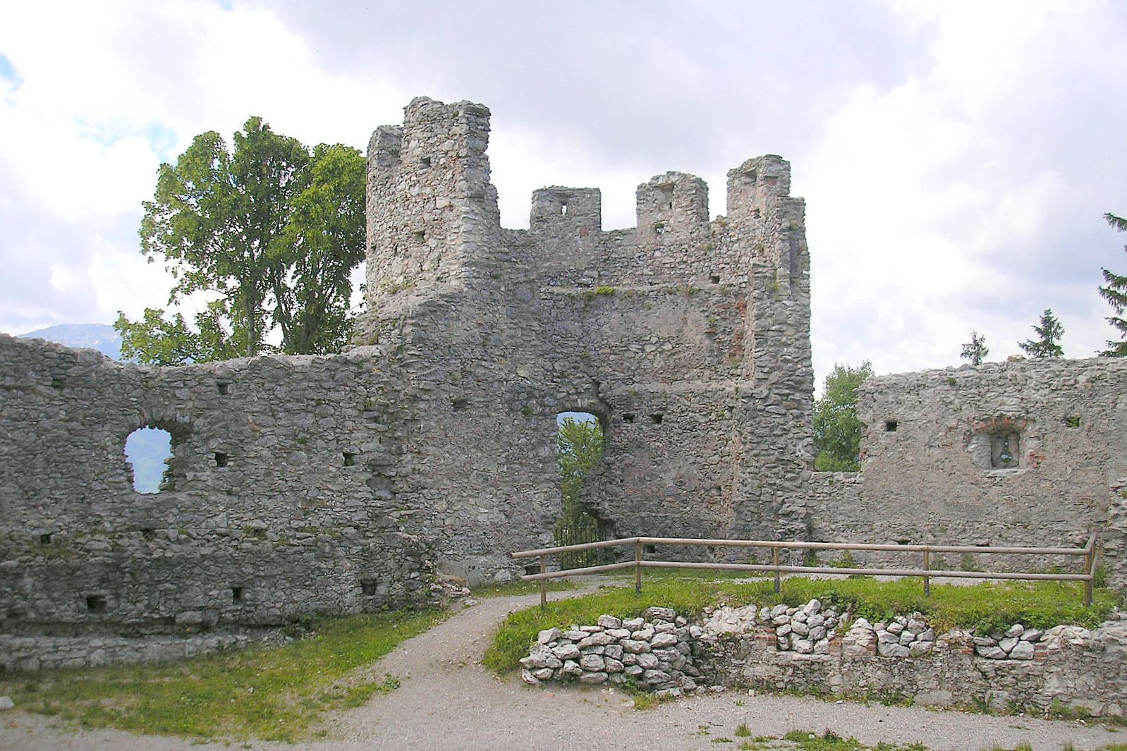 Hohenfreyberg castle ((Landkreis Ostallgäu, Bavaria, Germany). The great artillery tower of the bailey